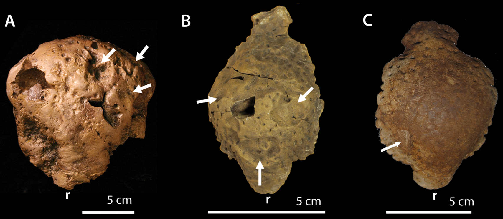 (B) TMP 1992.2.3, Stegoceras validum in dorsal view with arrows denoting dorsal lesions; (C) TMP 2011.012.0009, Stegoceras validum in dorsal view with arrow denoting dorsal lesion